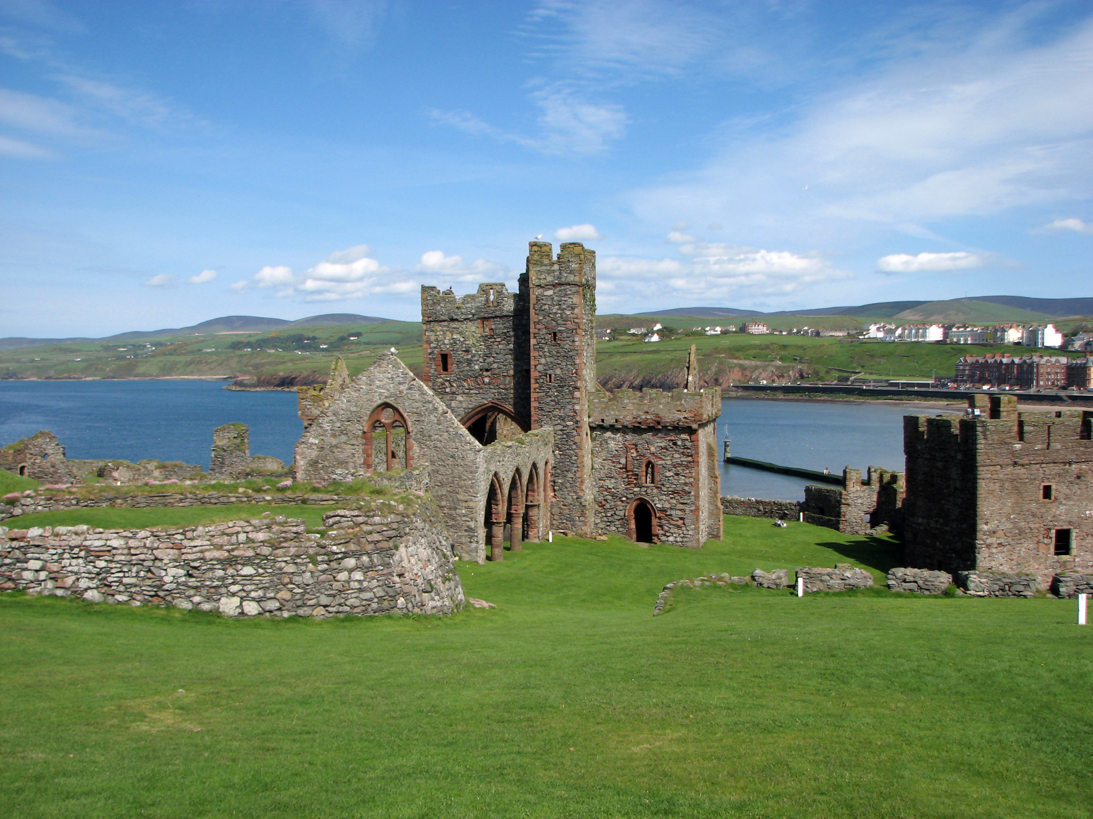 Ruins of the former Cathedral of St. German within Castle Peel